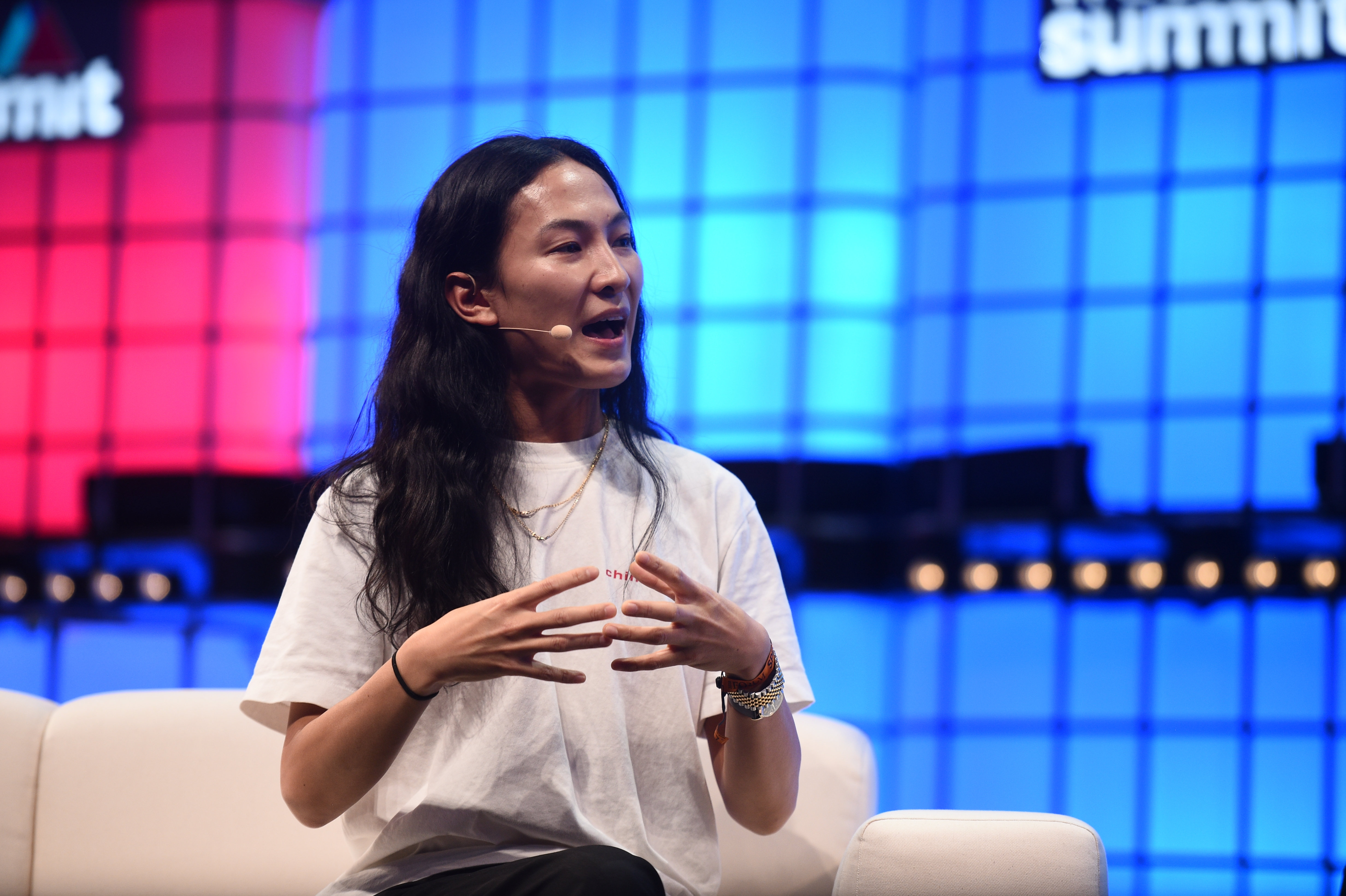 7 November 2018; Alexander Wang, Founder, Alexander Wang, on Centre Stage during day two of Web Summit 2018 at the Altice Arena in Lisbon, Portugal. Photo by David Fitzgerald/Web Summit via Sportsfile